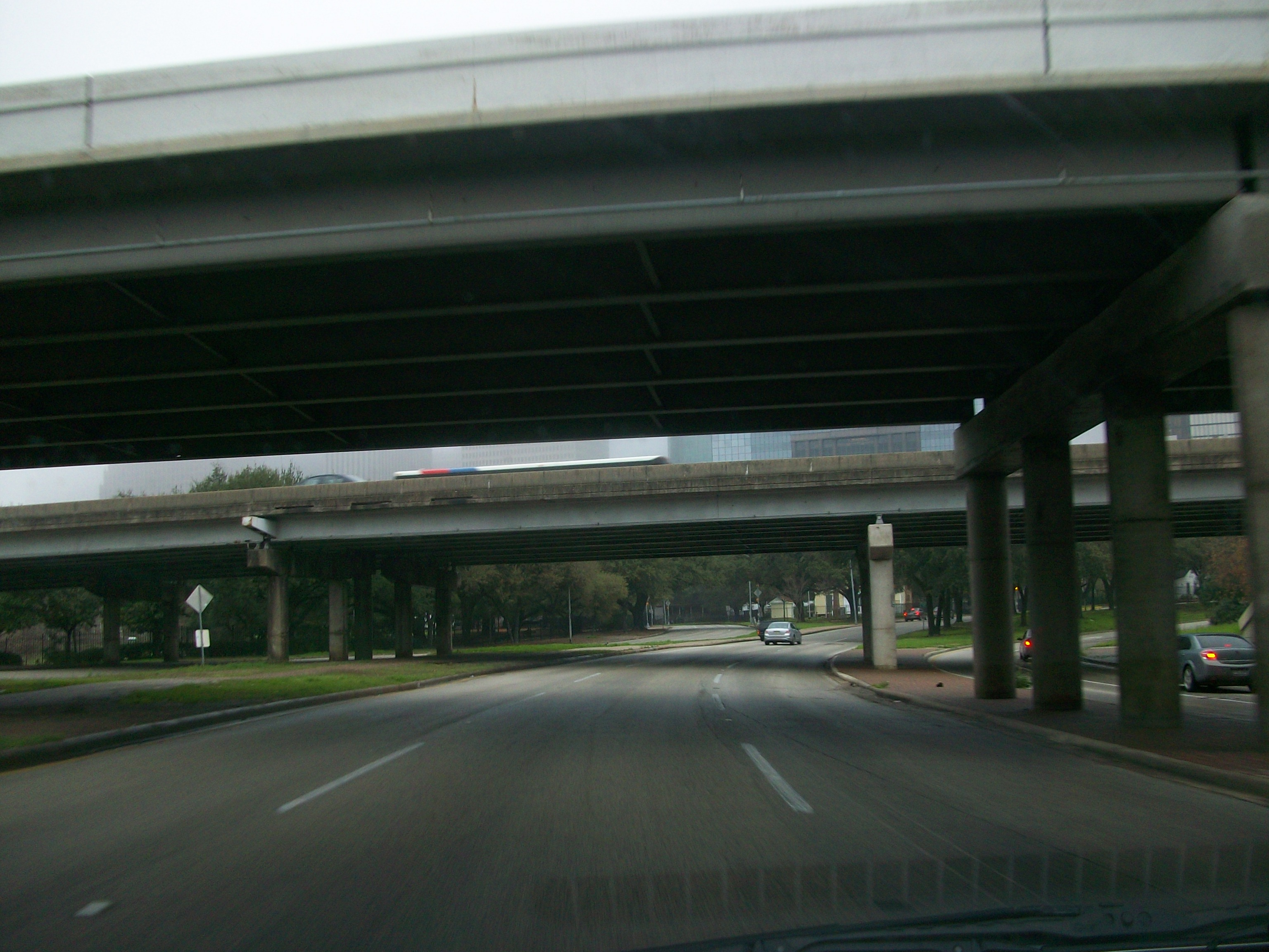 Eastbound Allen Parkway, Houston, TX